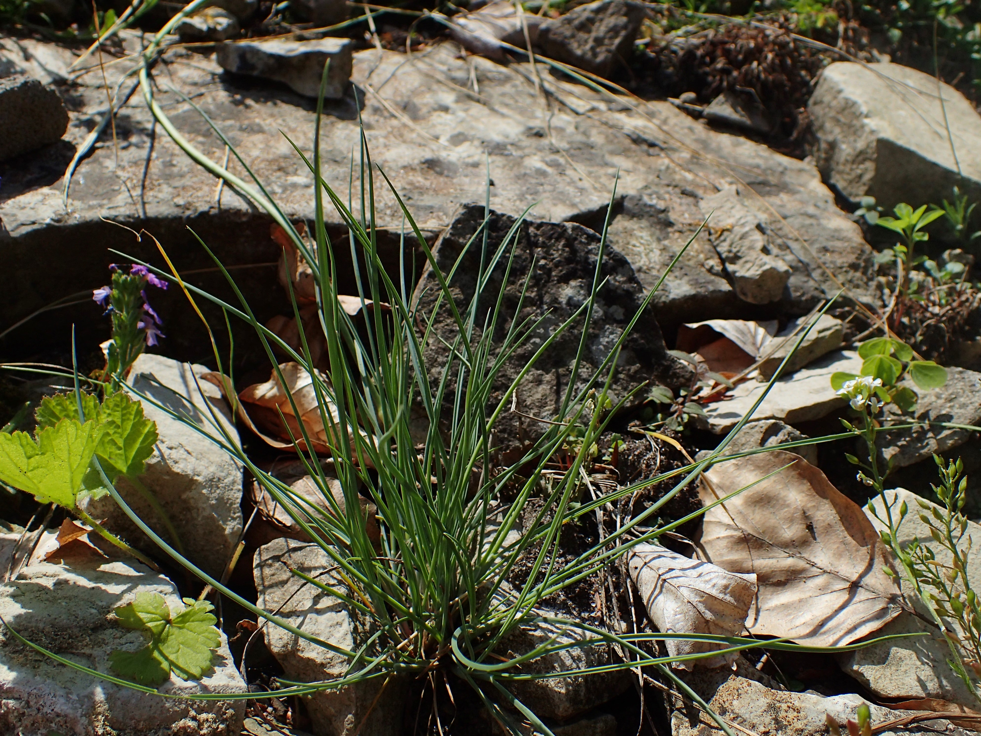 Piptatherum coerulescens in the Botanischer Garten, Berlin-Dahlem